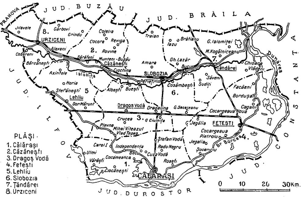 Map of Ialomița interwar county, Kingdom of Romania (1938).